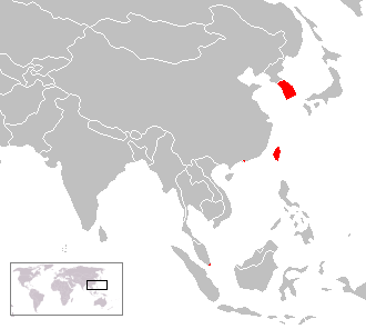 East Asian Tigers